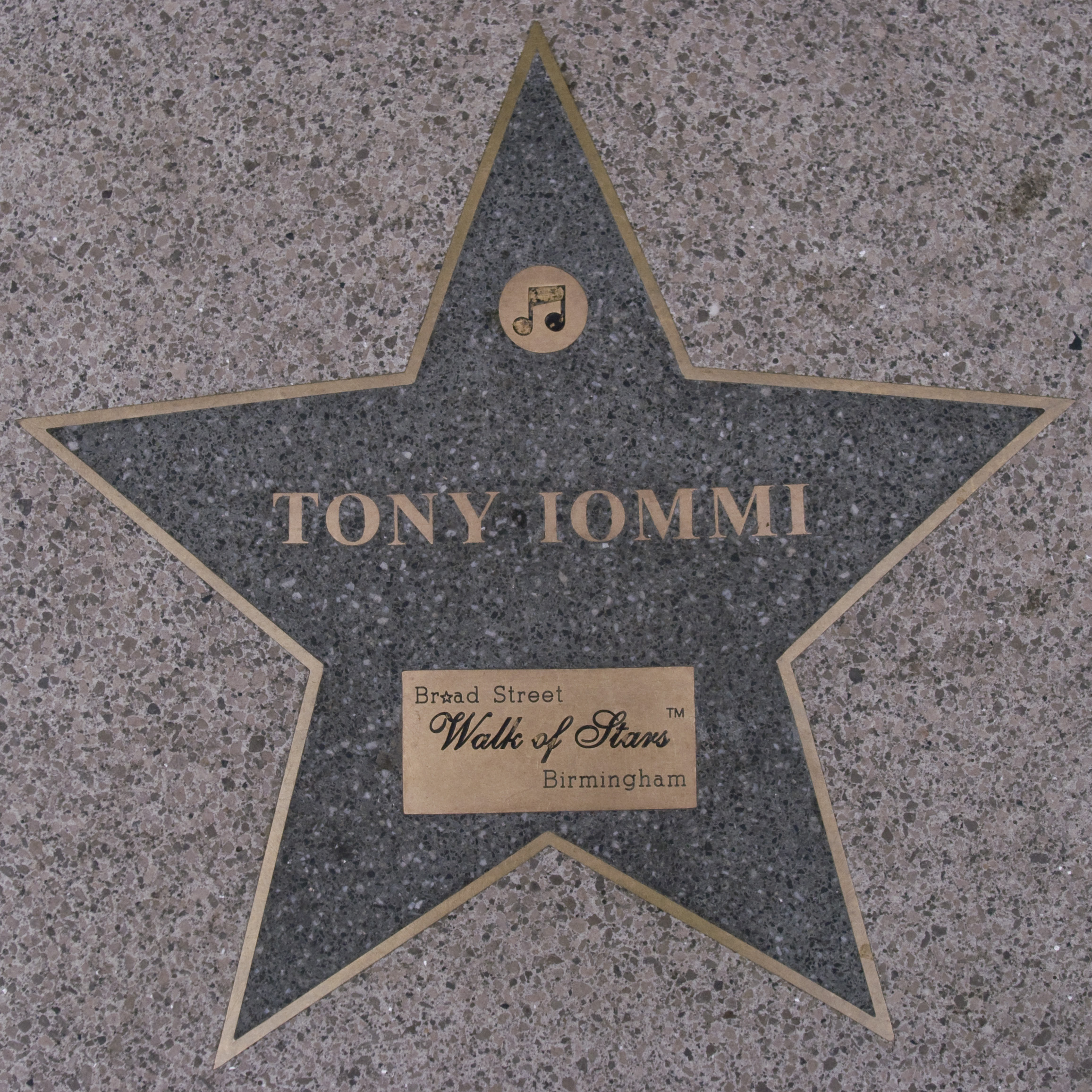 Star for Tony Iommi on the Walk of Stars on Broad Street, Birmingham, England. Set in the pavement in November 2008.